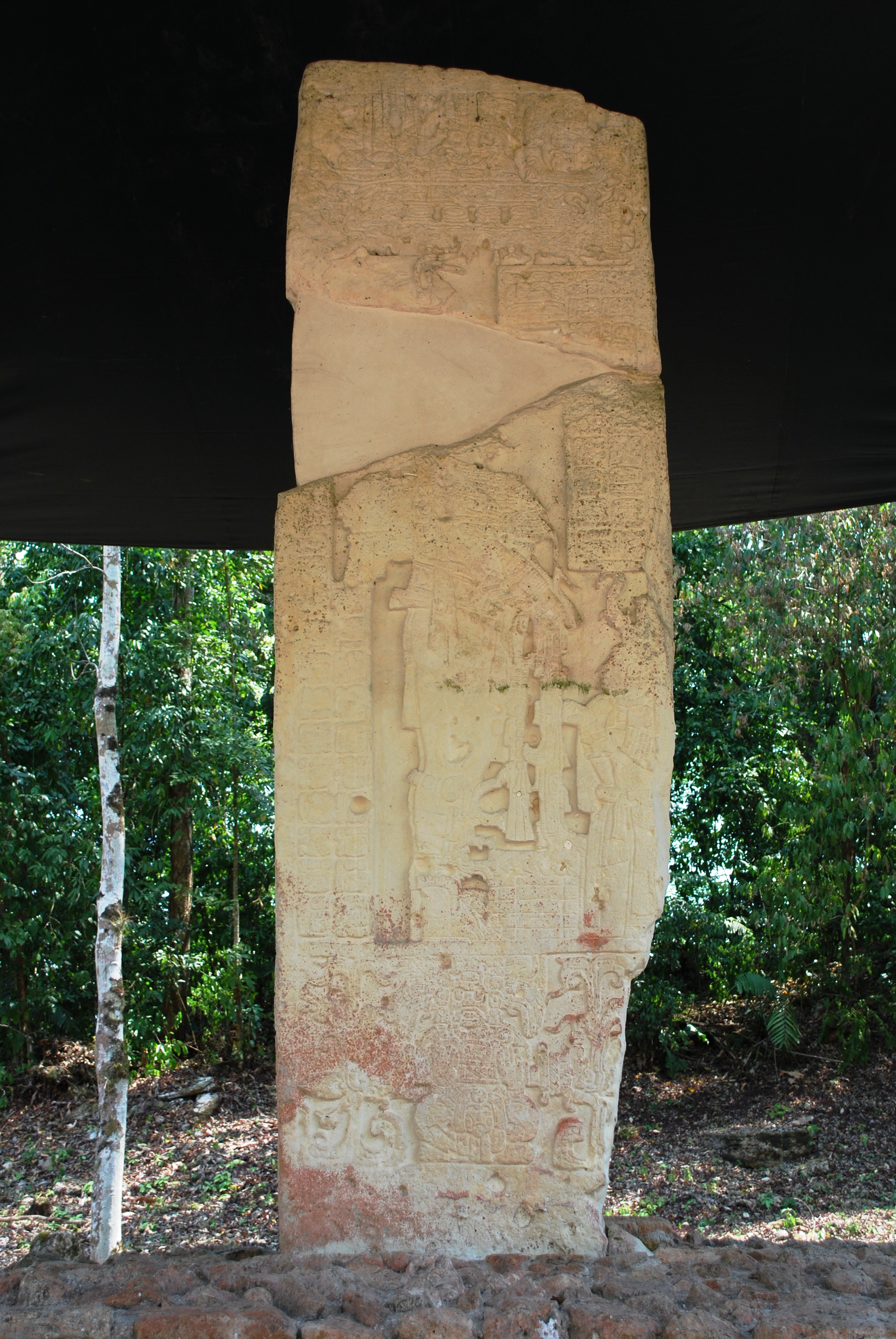 Stele 1 at Yaxchilan, Chiapas, Mexico